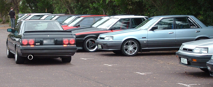 Took photo myself at Skyline meeting, 23rd April 2006, SW Melbourne.